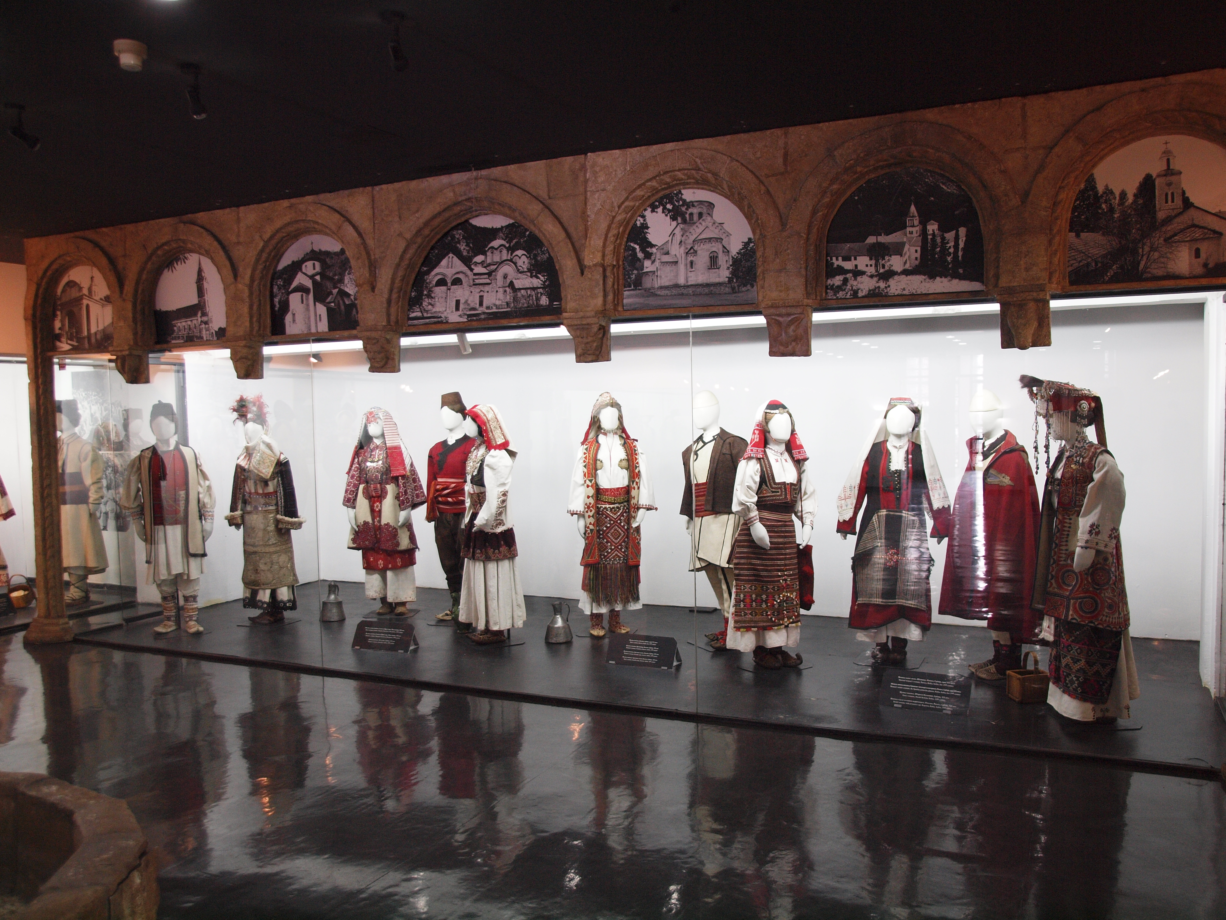 Serbian and Albanian national attire from Kosovo and Metohija